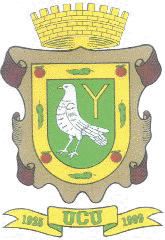 Coat of arms of Ucú, Yucatán.